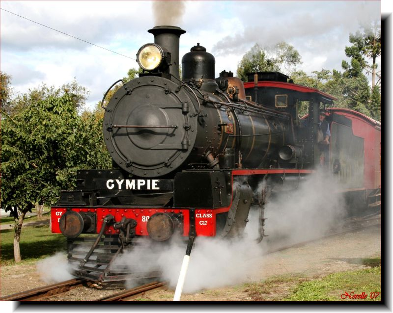 The Mary Valley Rattler / Leaving Imbil to return to Gympie at 2pm Sunday, what a buzz seeing an actual steam train so close go by